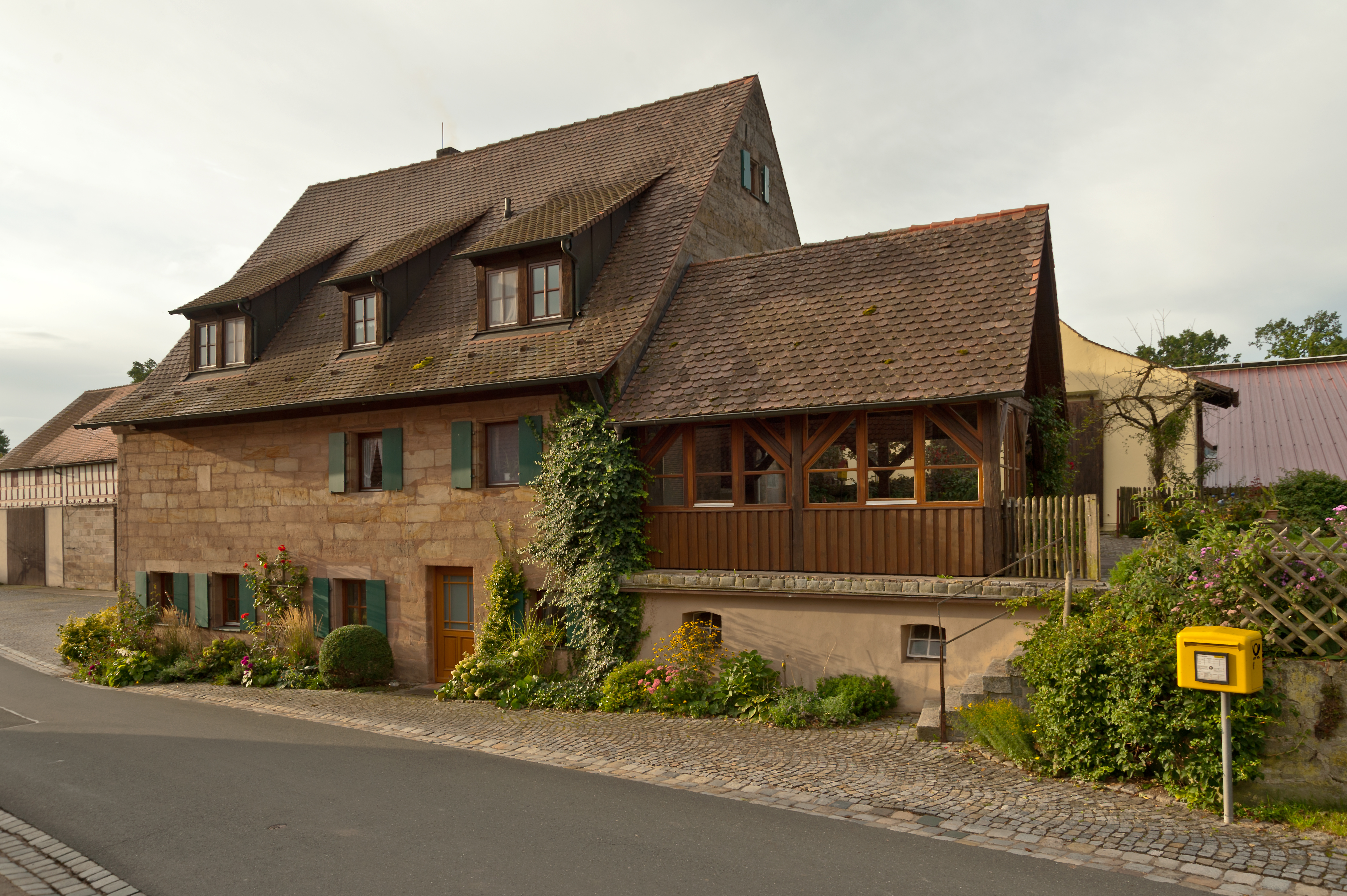 This is a photograph of an architectural monument.